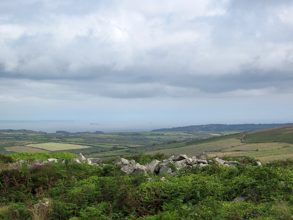 Chûn Castle in Cornwall UK